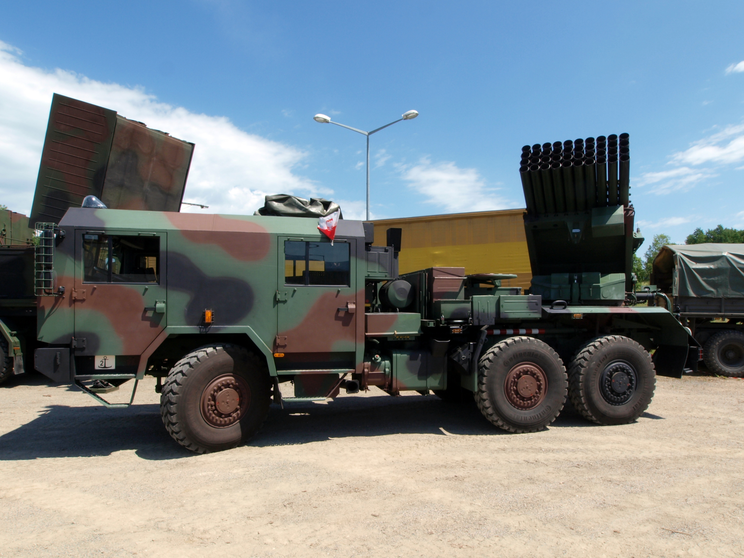 Polish WR-40 Langusta 122mm